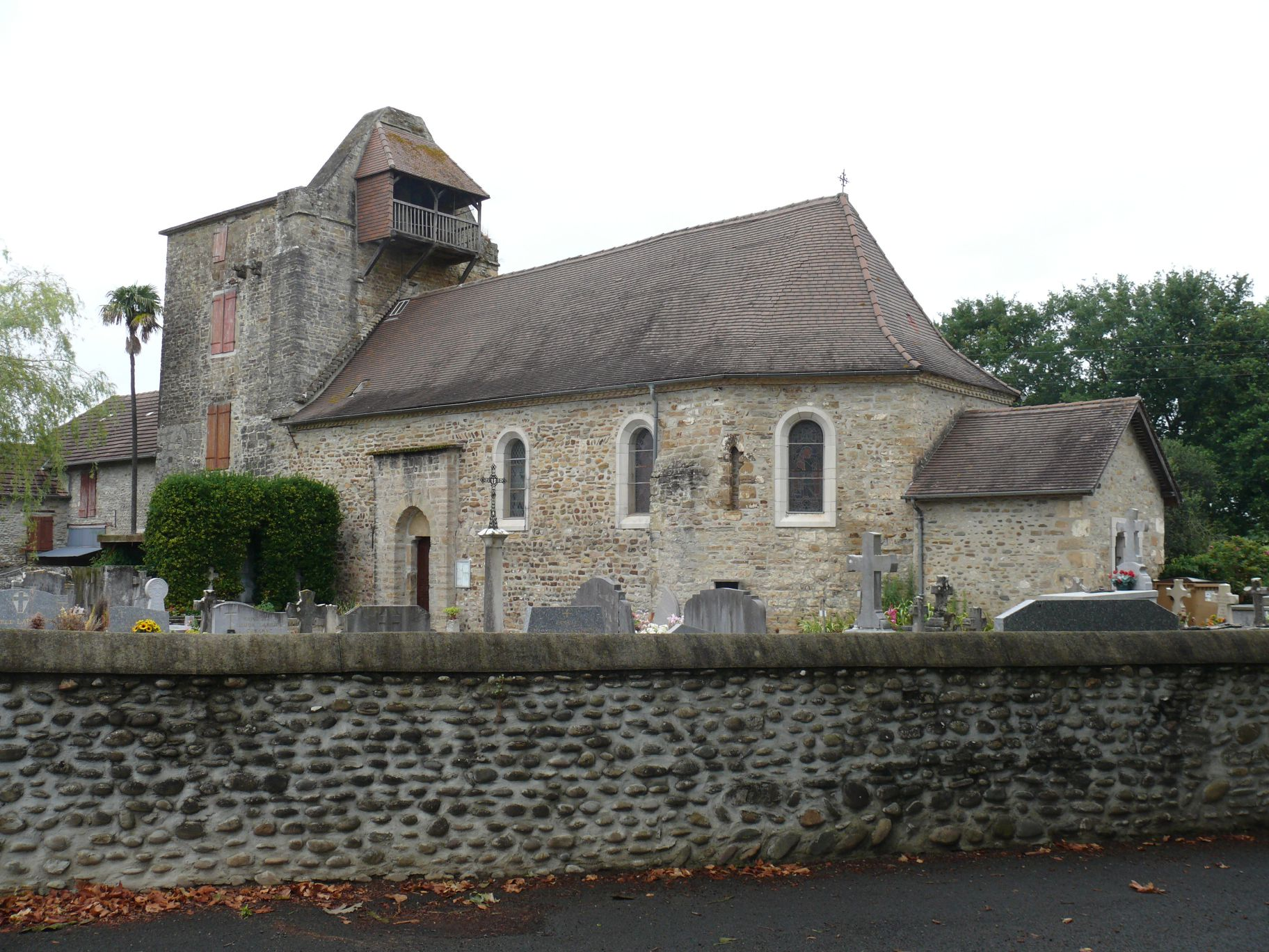 The church of Gestas (Pyrénées-Atlantiques, France).